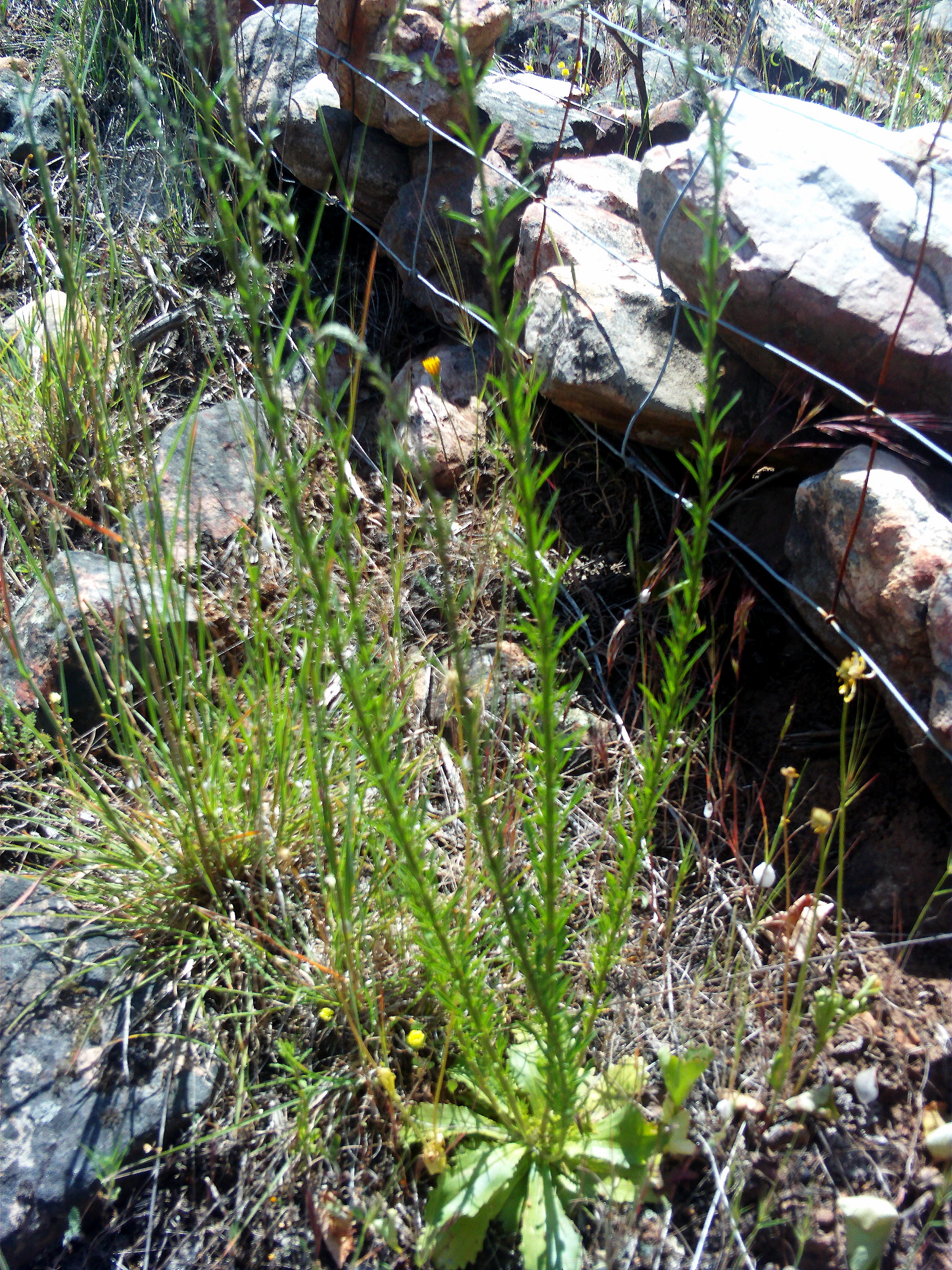 Anarrhinum bellidifolium habit, Dehesa Boyal de Puertollano, Spain